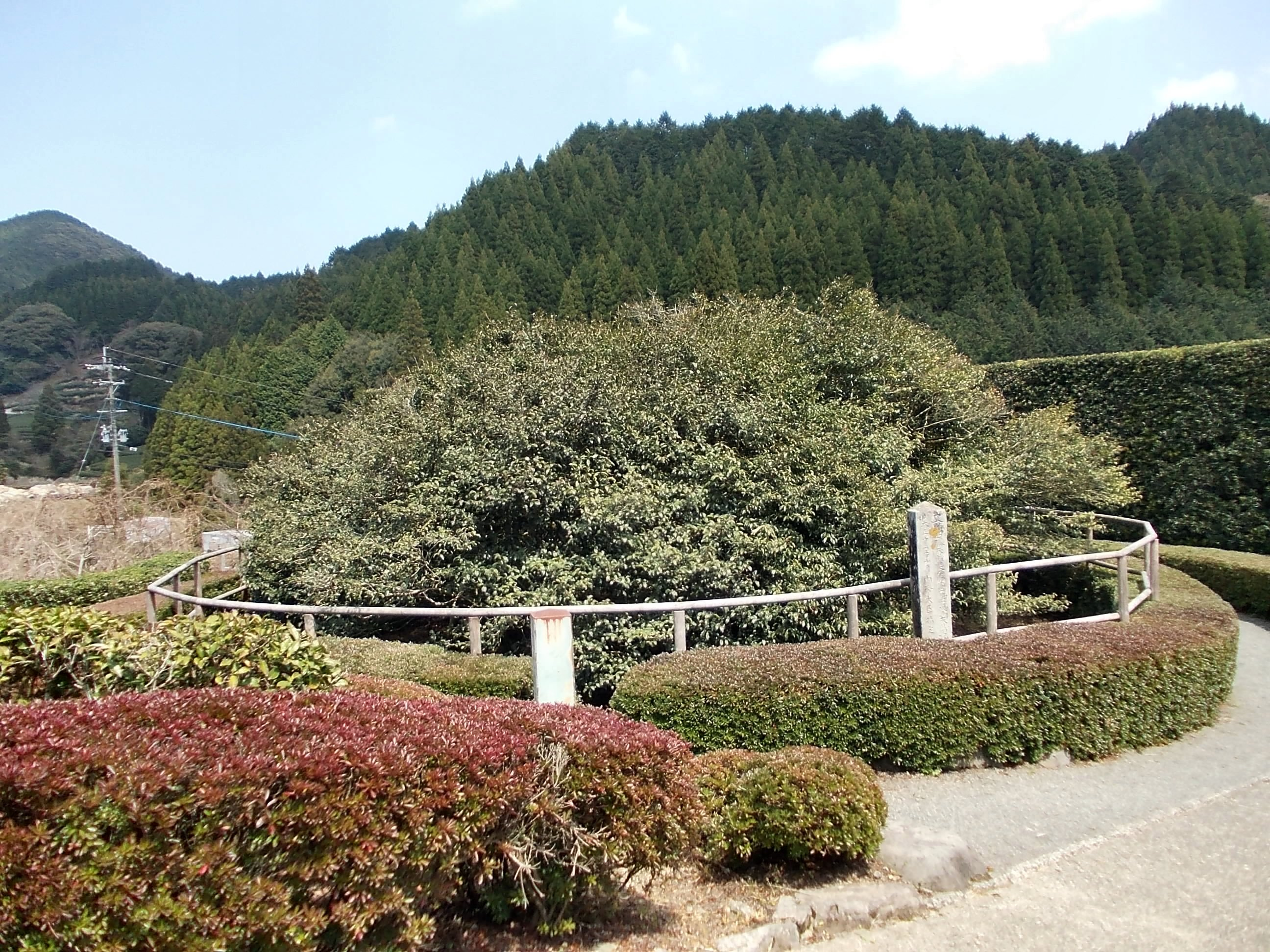 The Tea Tree at Mt. Fudō in Ureshino, Saga, Japan